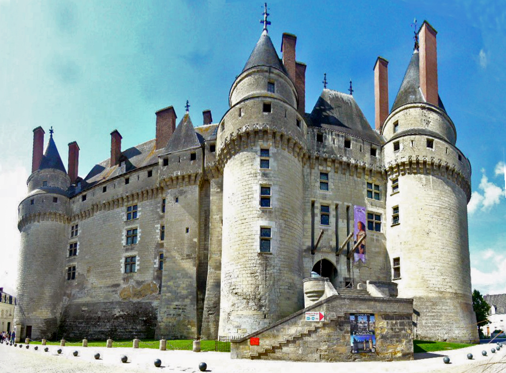 Château de Langeais